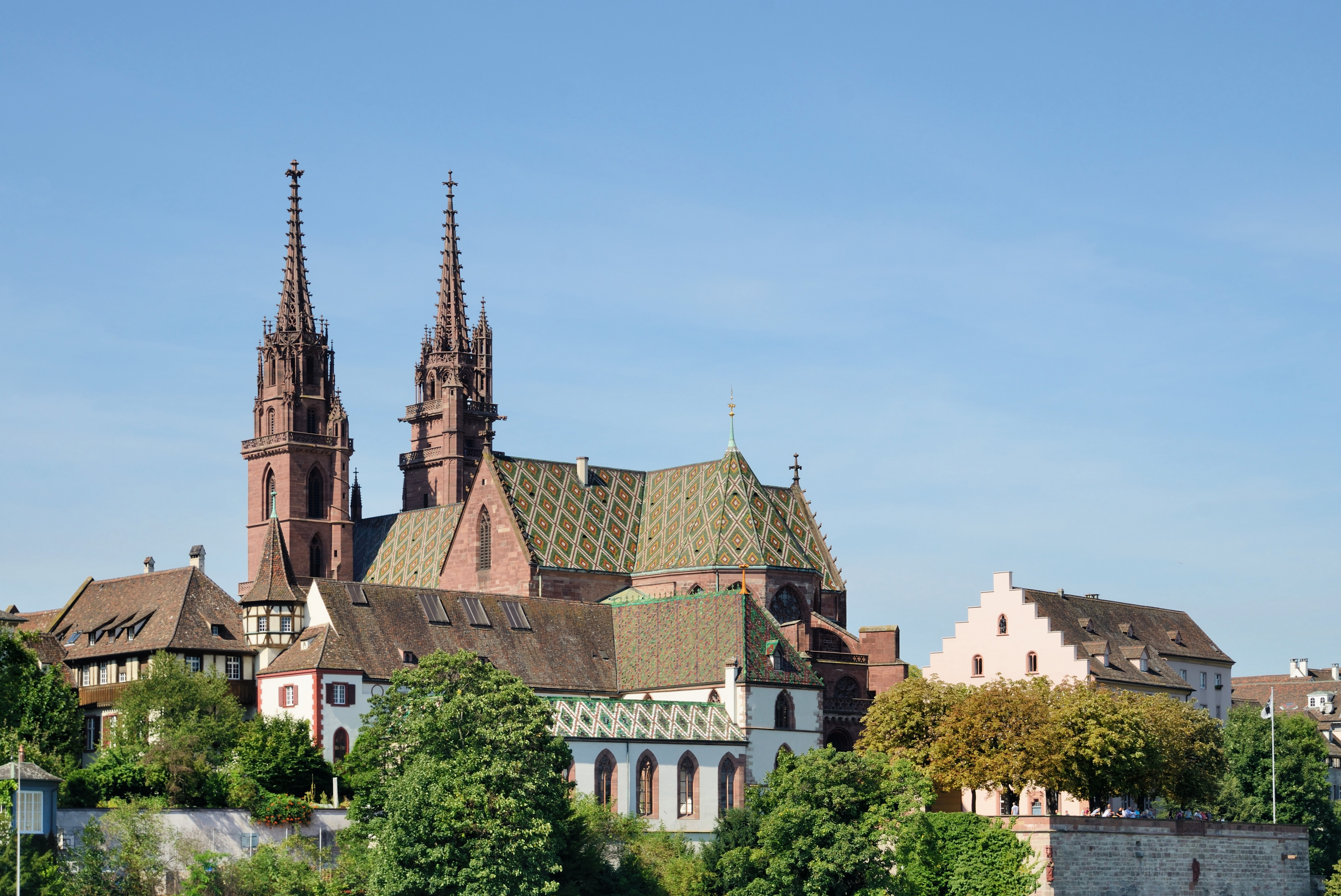 Basel: pfalz, minster and sourrounding